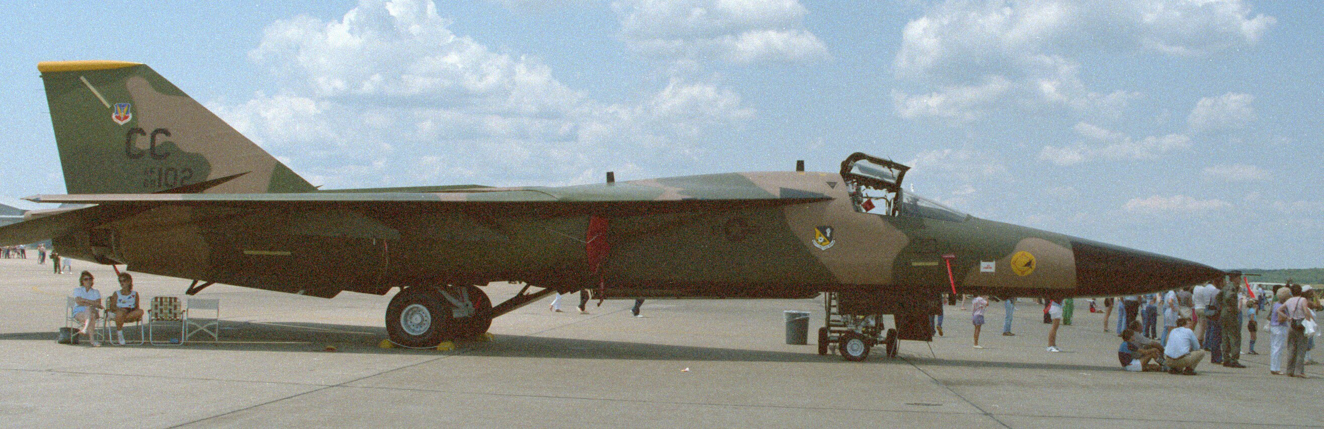 General Dynamics F-111D attack aircraft, on static display at an air show at Little Rock (Arkansas, USA) Air Force Base in 1985. The aircraft sports the yellow tail flash of the 524th TFS "Hounds" 27th TFW, Cannon AFB.